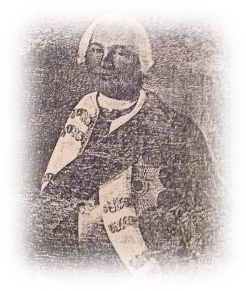 Generalleutnant Heinrich von Manteuffel